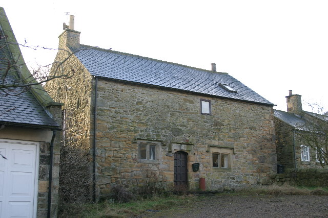 Rebellion House, High Callerton. The name comes from the tradition that Oliver Cromwell stayed in the house. It is the oldest building in the village and is basically a 17th Century Bastle House.